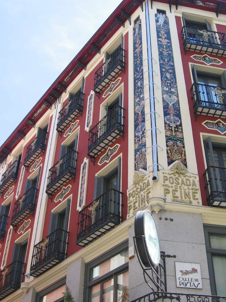 Partial view of the Posada del Peine (a hotel) at 17 Calle de Postas (street) in Madrid (Spain). Building was projected by Antonio de Cachavera y Lángara and built from 1857 to 1858. The present façade was made from 1891 to 1892.